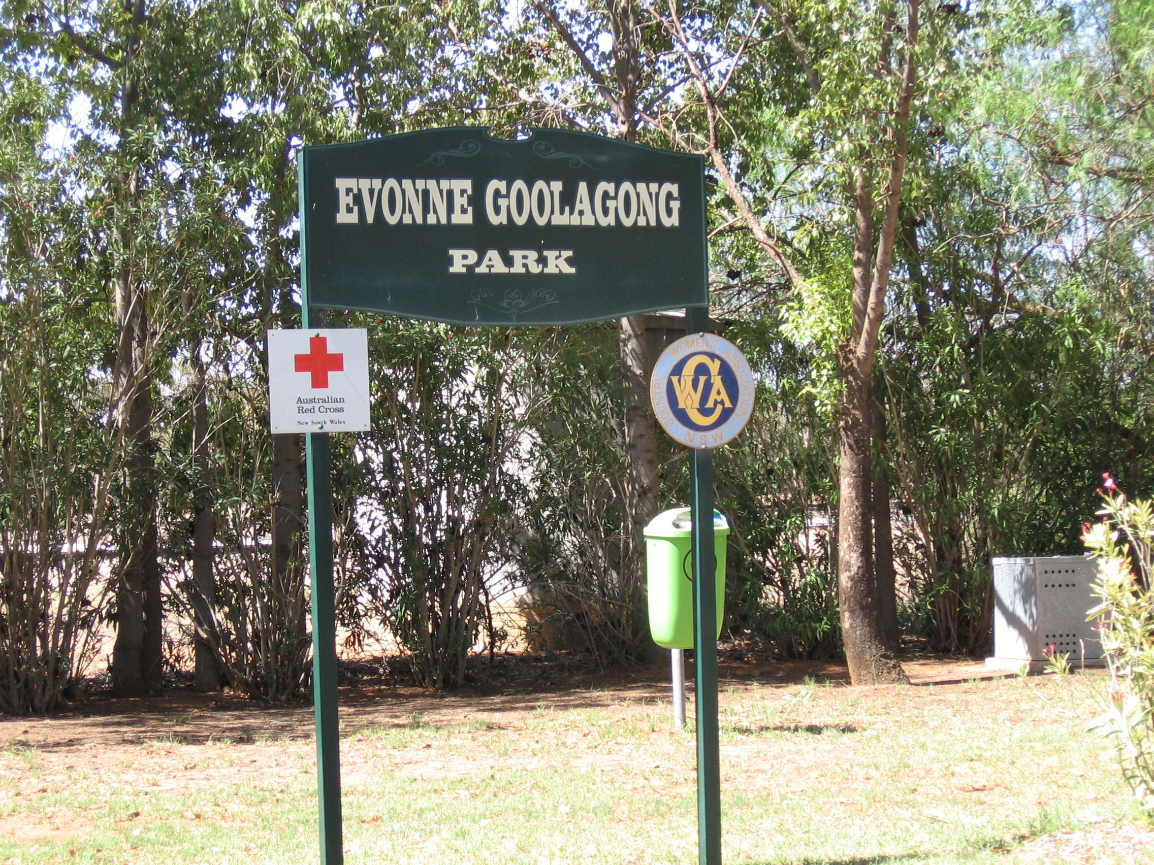 Evonne Goolagong park at Barellan, New South Wales